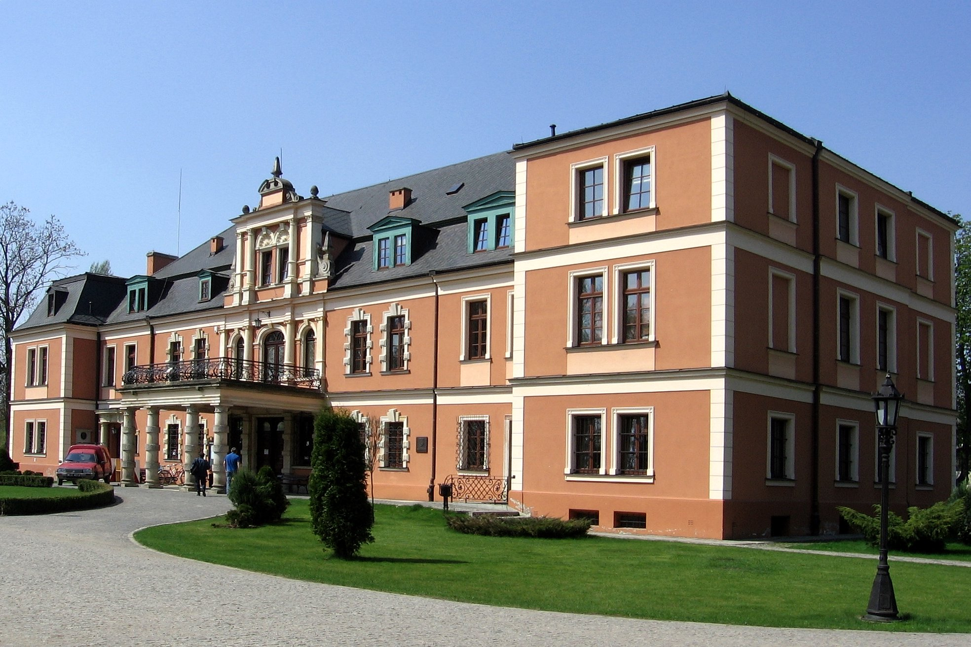 the palace (built 1884) in Kobierzyce (German: Koberwitz) south of Wrocław, Poland